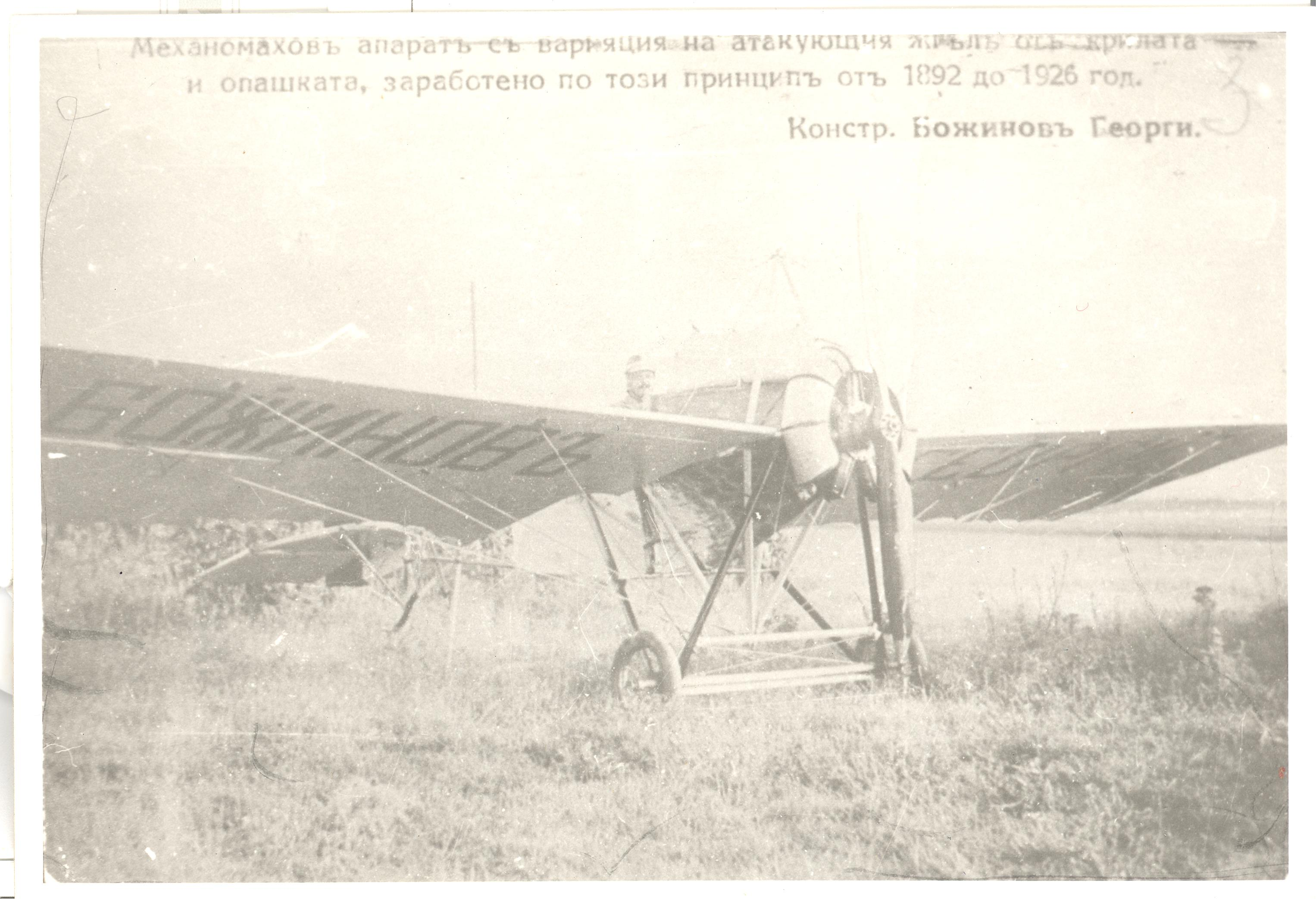 Airplane of Georgy Bozhinov